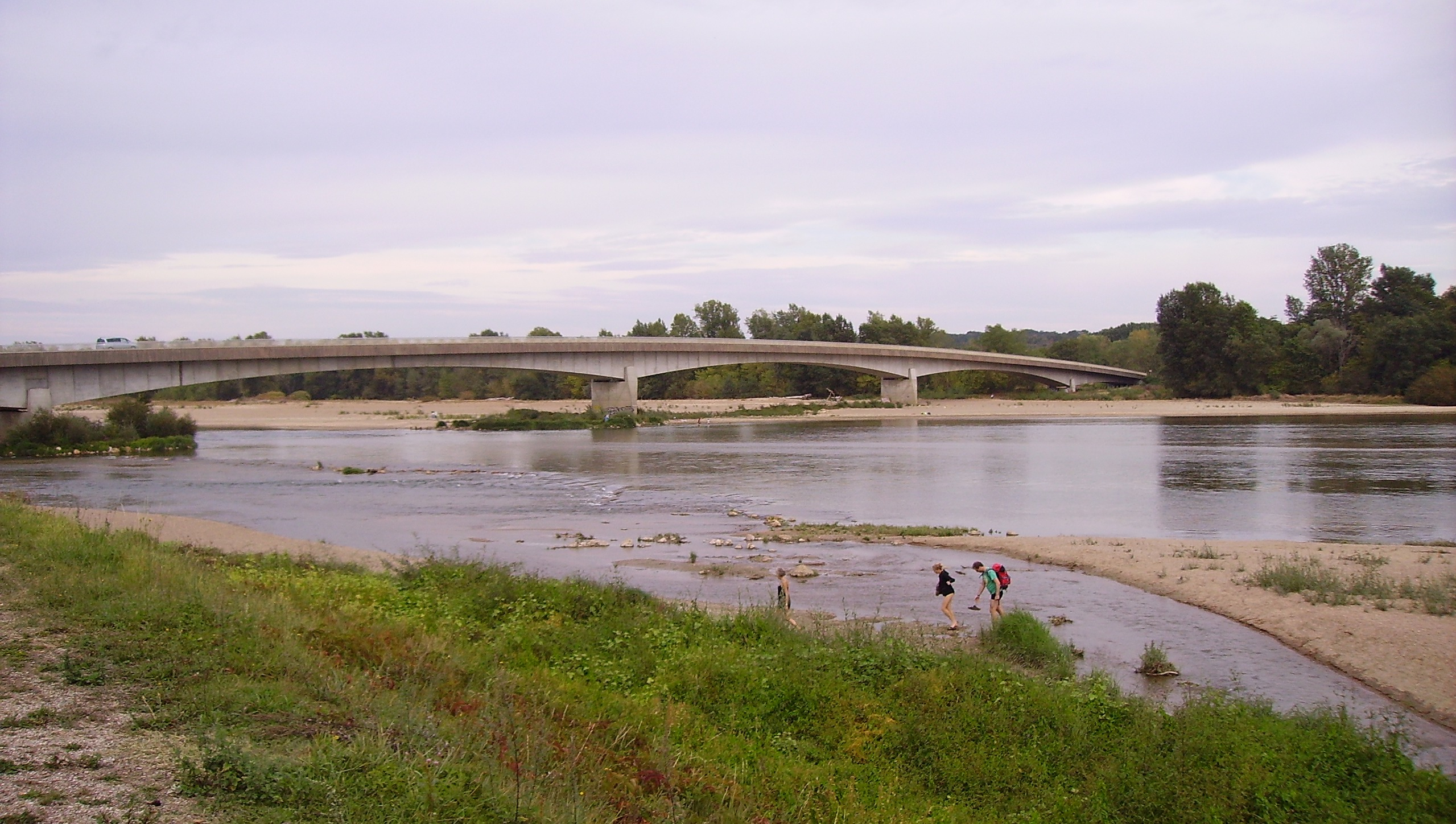 The confluence of the Loire (on the right) and Vauvise rivers in Saint-Thibault-sur-Loire, Cher, Centre region, France.